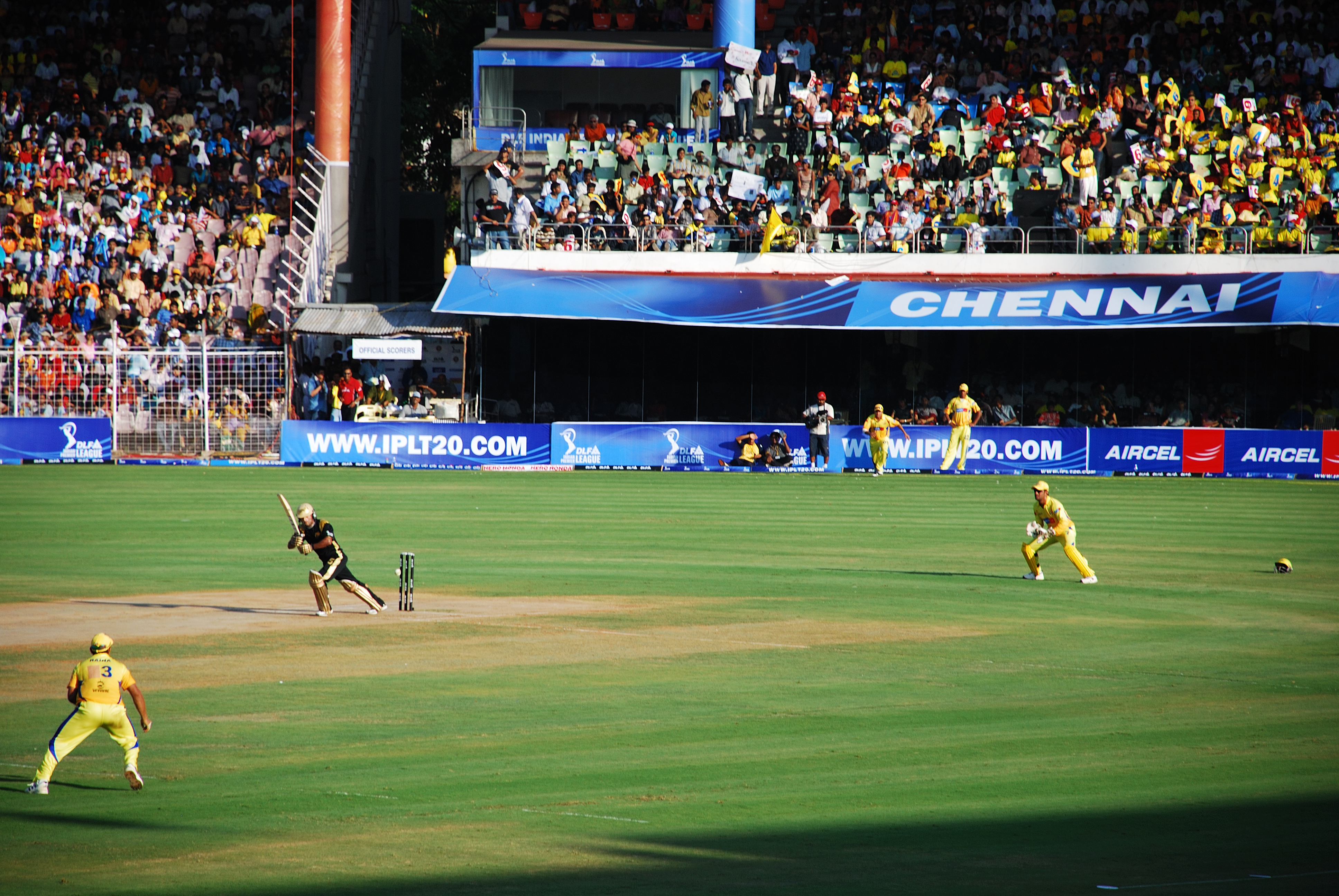 A photo of a match between Chennai SuperKings and Kolkata Knightriders during the DLF IPL T20 tournament